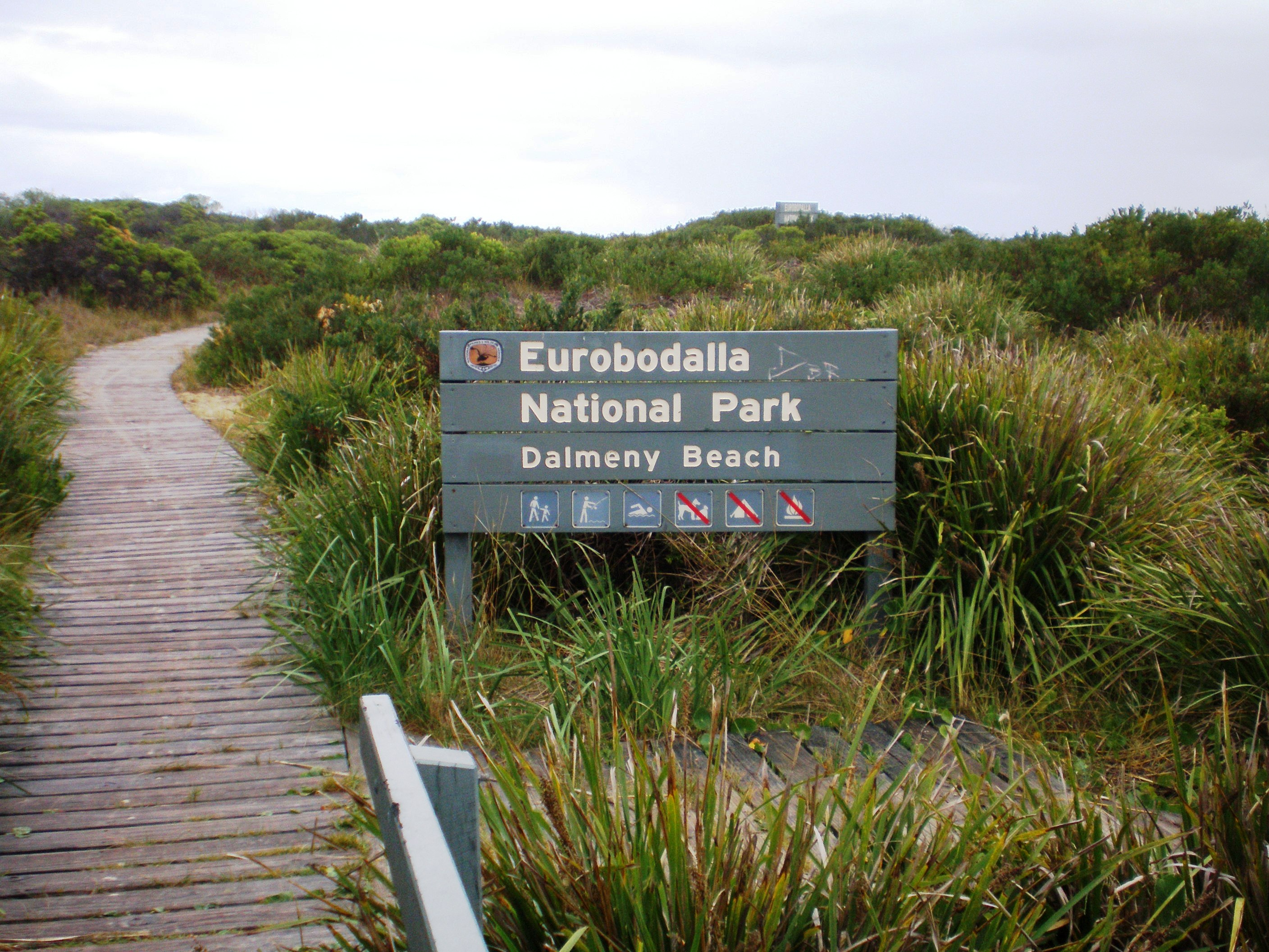 Dalmeny Beach, part of the Eurobodalla National Park